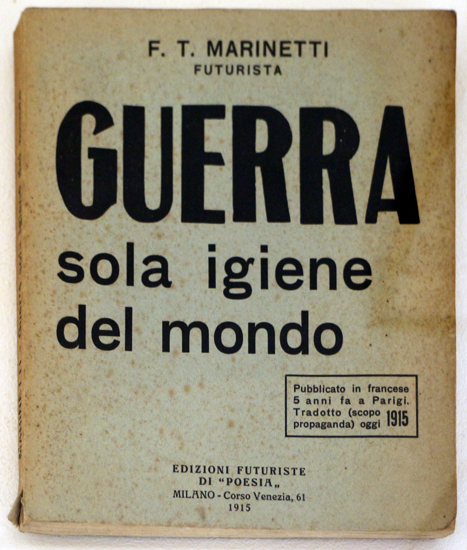 Poggio a Caiano